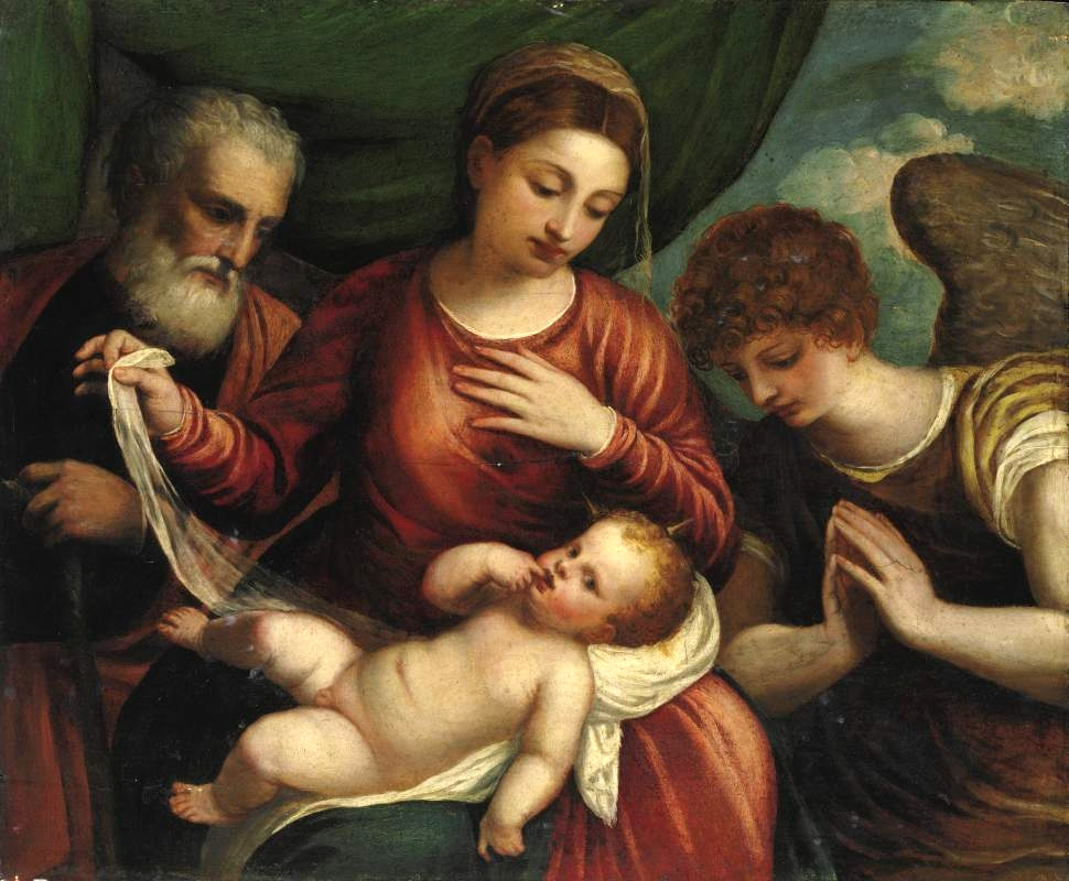 Oil painting of Holy Family with an angel, c. 1540. Cloth of Honor behind Virgin Mary. Baby Jesus with small nimbus. Done in Polidoro's style, which is very similar to Titian. He may have been employed in Titian's workshop around the time that he did this painting.